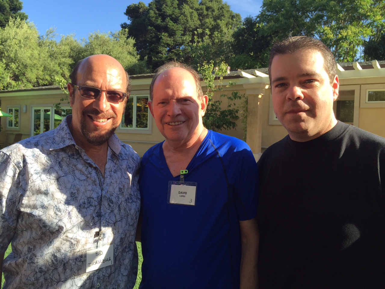 Jeffrey Peterson is an Internet Entrepreneur I photographed during a gathering at the residence of Ben and Felica Horowitz. Also pictured are David Lopez, the father of singer Jennifer Lopez, and Edward Zuckerberg, Mark Zuckerberg's father.